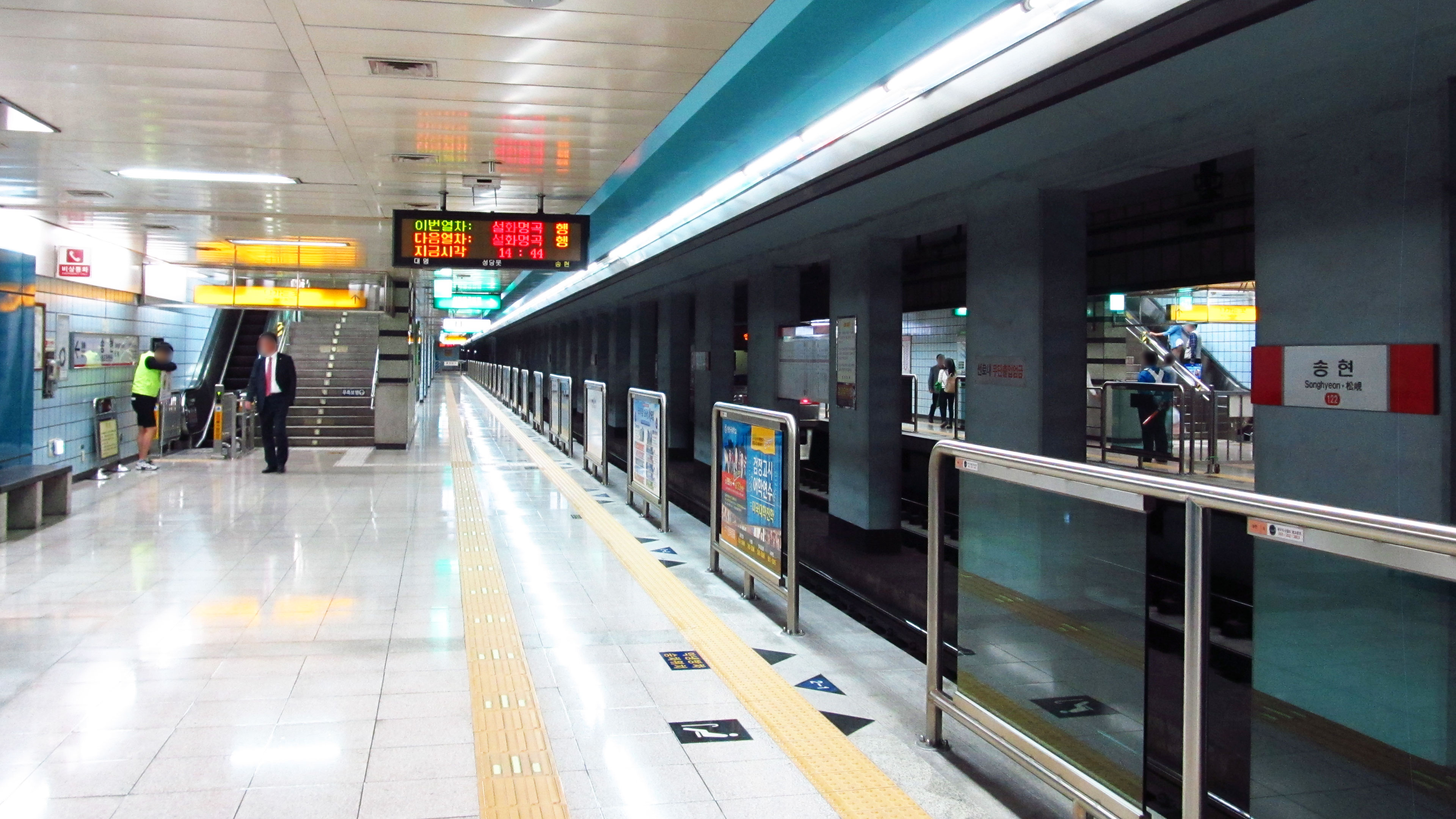 The platform of Songhyeon Station on the Daegu Metro Line 1, for Wolchon, Seolhwa-Myeonggok